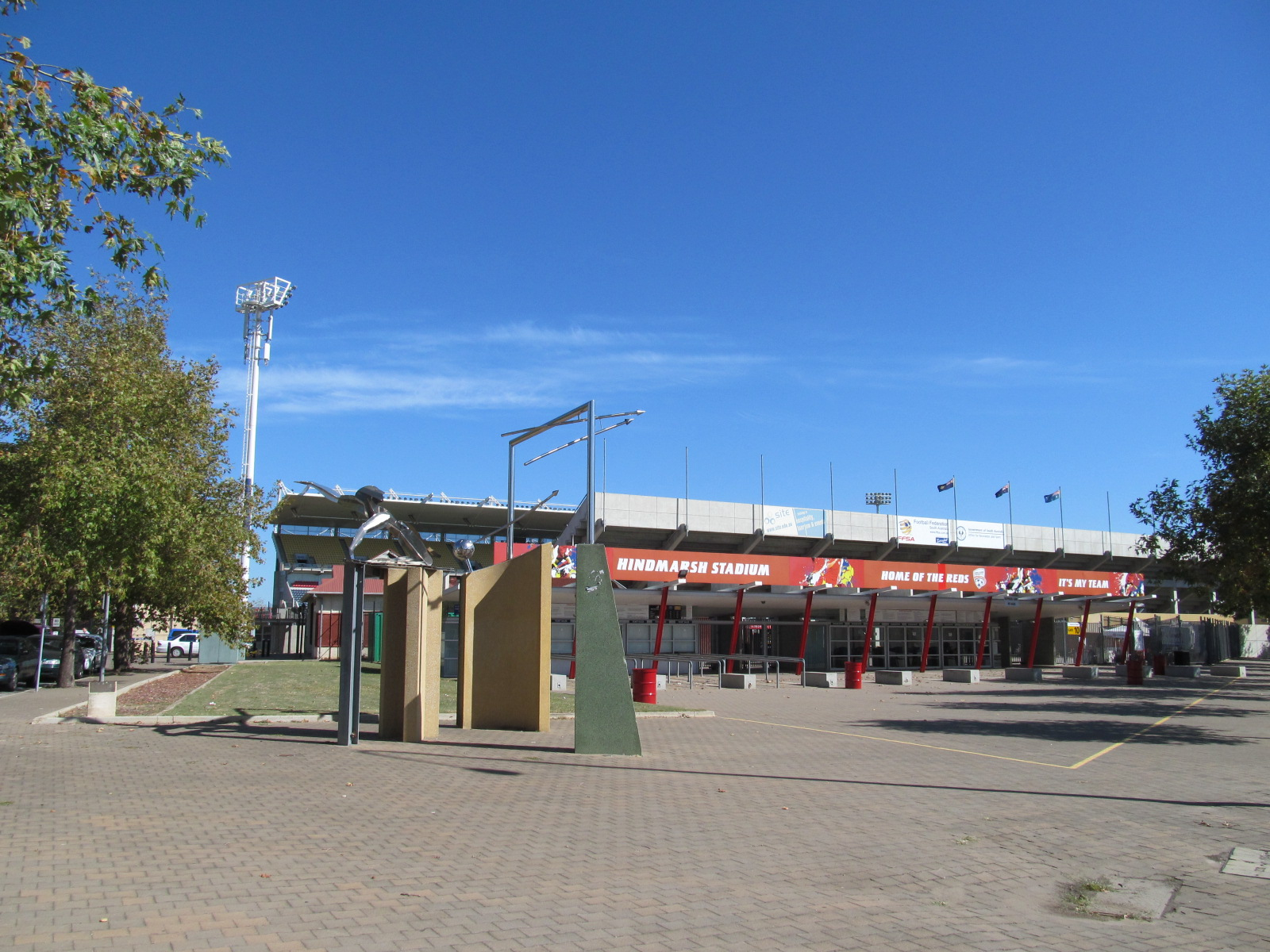 Front of Hindmarsh Stadium, Adelaide.